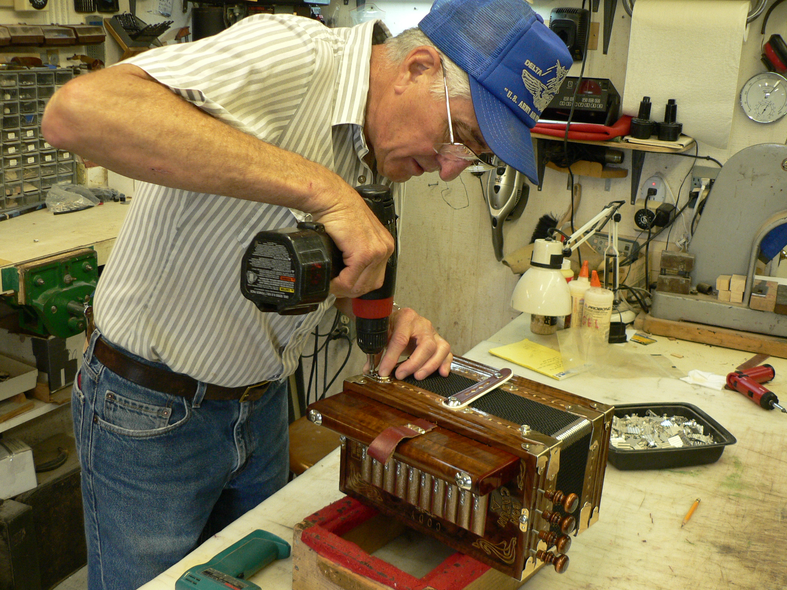 Larry Miller in his shop in Iota, Louisiana building a Cajun accordion.